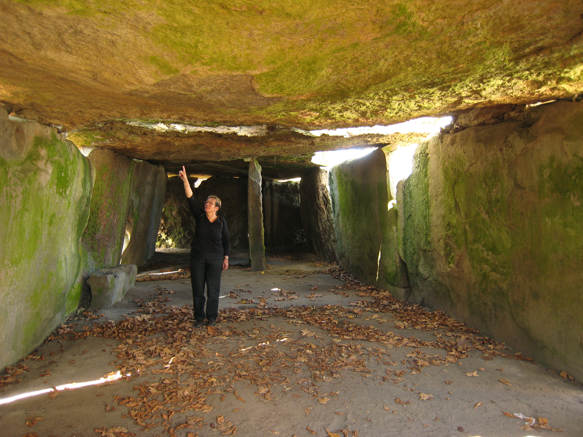 Interior of the "Great Dolmen of Bagneux", near the village of Saumur, in the valley of the Loire/France.